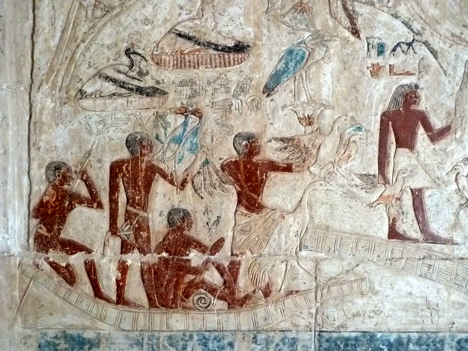 "The small craft", scene situated in the first chamber of Nikauisesi's mastaba, Saqqara, Egypt. Four men are in the small barge. One propels the boat, an other holds fishing materials (line and club). Two men stands up: the one at left is named Nimaatsed; tho one at right, Anti. They hold geeses and crane in their hands. In an other craft at right, stands a man named Iaib. Source (for this description): , mastaba of Nikauisesi, chamber 1, east wall.